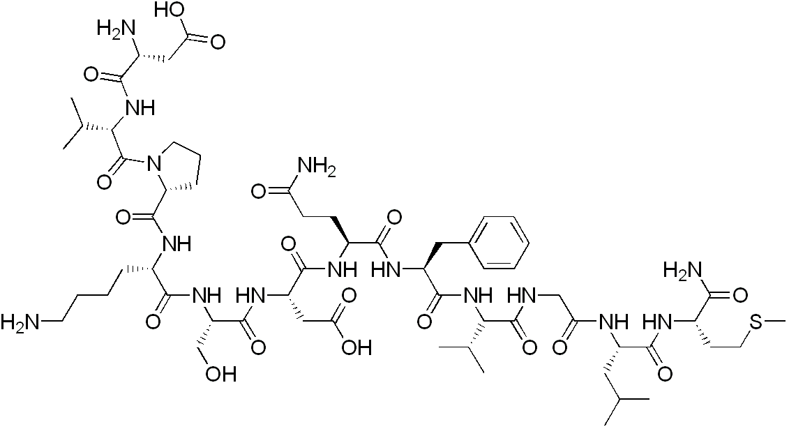 chemical structure of kassinin